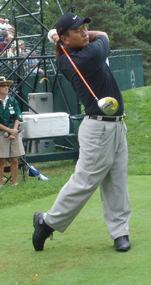 Choi Kyung-Ju. I took this photo at the 2005 PGA championship practice round.